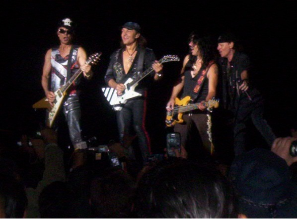 Scorpions in Colombia